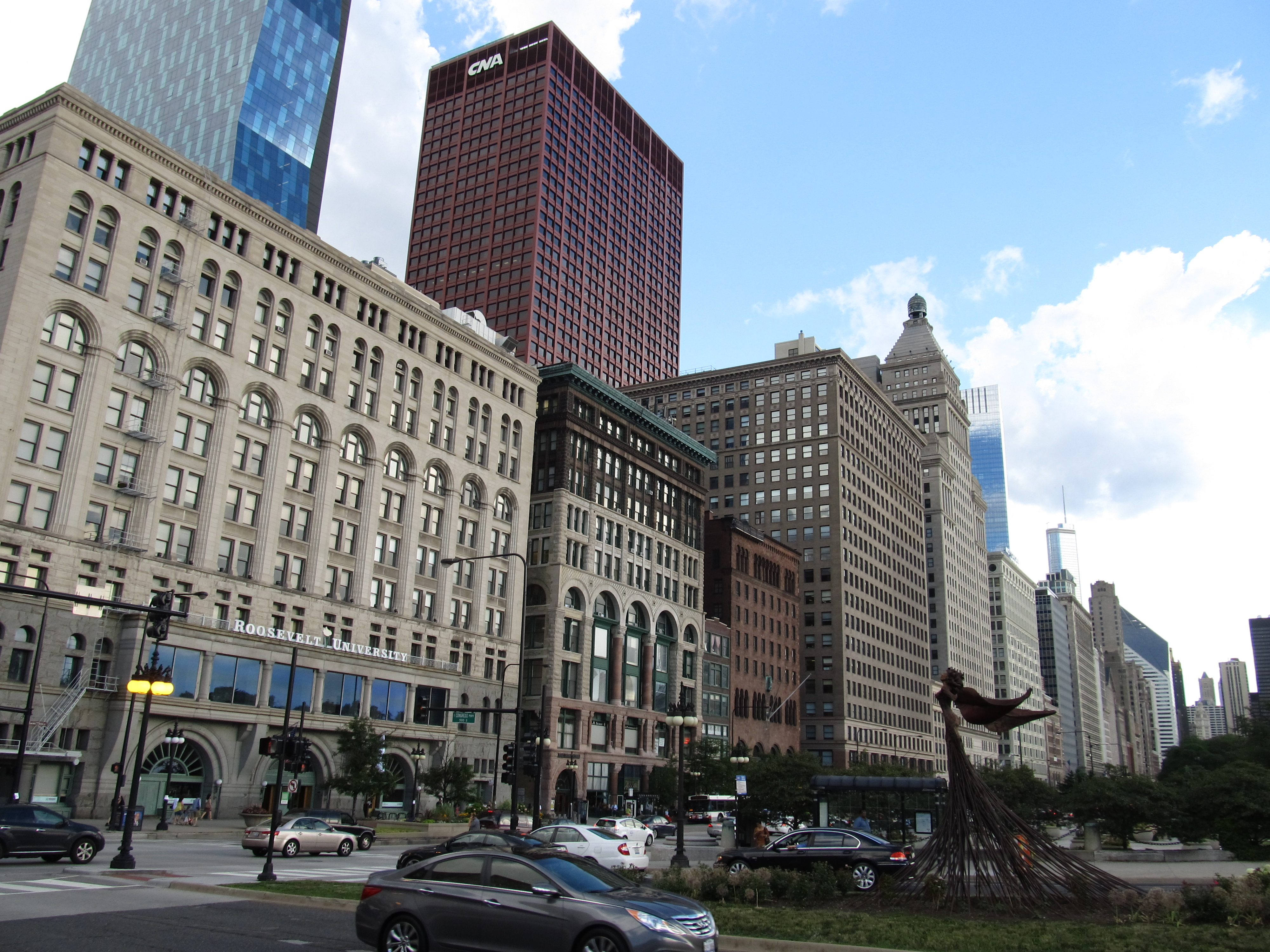 The Historic Michigan Boulevard District is a historic district in the Loop community area of Chicago in Cook County, Illinois, United States encompassing Michigan Avenue between 11th (1100 south in the street numbering system) or Roosevelt Road (1200 south), depending on the source, and Randolph Streets (150 north) and named after the nearby Great Lake. It was designated a Chicago Landmark on February 27, 2002. The district includes numerous significant buildings on Michigan Avenue facing Grant Park. In addition, this section of Michigan Avenue includes the point recognized as the end of U.S. Route 66. This district is one of the world's most well known one-sided streets rivalling Fifth Avenue in New York City and Edinburgh's Princes Street. It lies immediately south of the Michigan–Wacker Historic District and east of the Loop Retail Historic District.